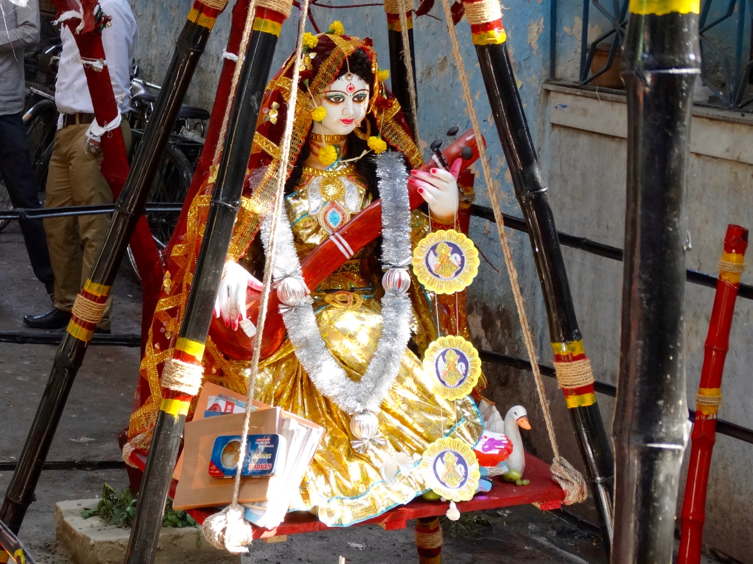 Yellow is Basant panchami color. Saraswati is the goddess of knowledge, learning, arts and music in the Hindu traditions.